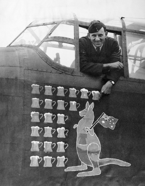 AWM caption : RAF STATION BOTTESFORD, LEICESTER, ENGLAND. 1943-06-05. SCORNING ORTHODOX FUSELAGE DECORATION, THE CREW OF LANCASTER NO. 467 SQUADRON RAAF CAPTAINED BY 412391 FLIGHT LIEUTENANT R. CARMICHAEL, BOURKE, NSW, RECORD EVERY RAID IN WHICH THEY PARTICIPATE BY PAINTING A BEER MUG ON THEIR AIRCRAFT. 9359 SERGEANT L. M. PARKER, BUNDABERG, QLD, GROUND STAFF SERGEANT IN CHARGE OF AIRCRAFT WAS RESPONSIBLE FOR SUGGESTING THIS METHOD OF RECORDING THE OPERATIONAL FLIGHTS.